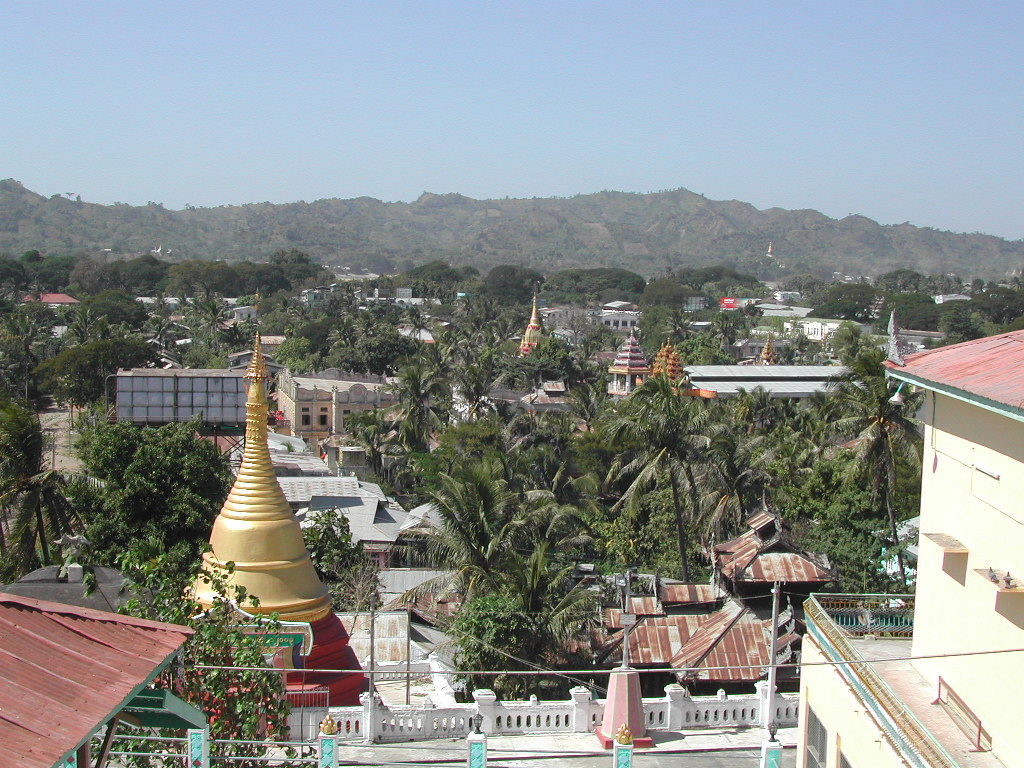 Pyay, Myanmar. View from Shwesandaw Paya